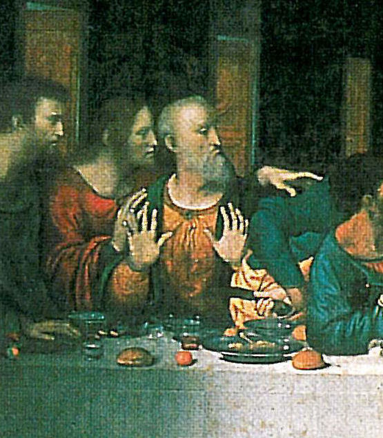 copy of Leonardo da Vinci's Last supper by an unknown 16th century artist